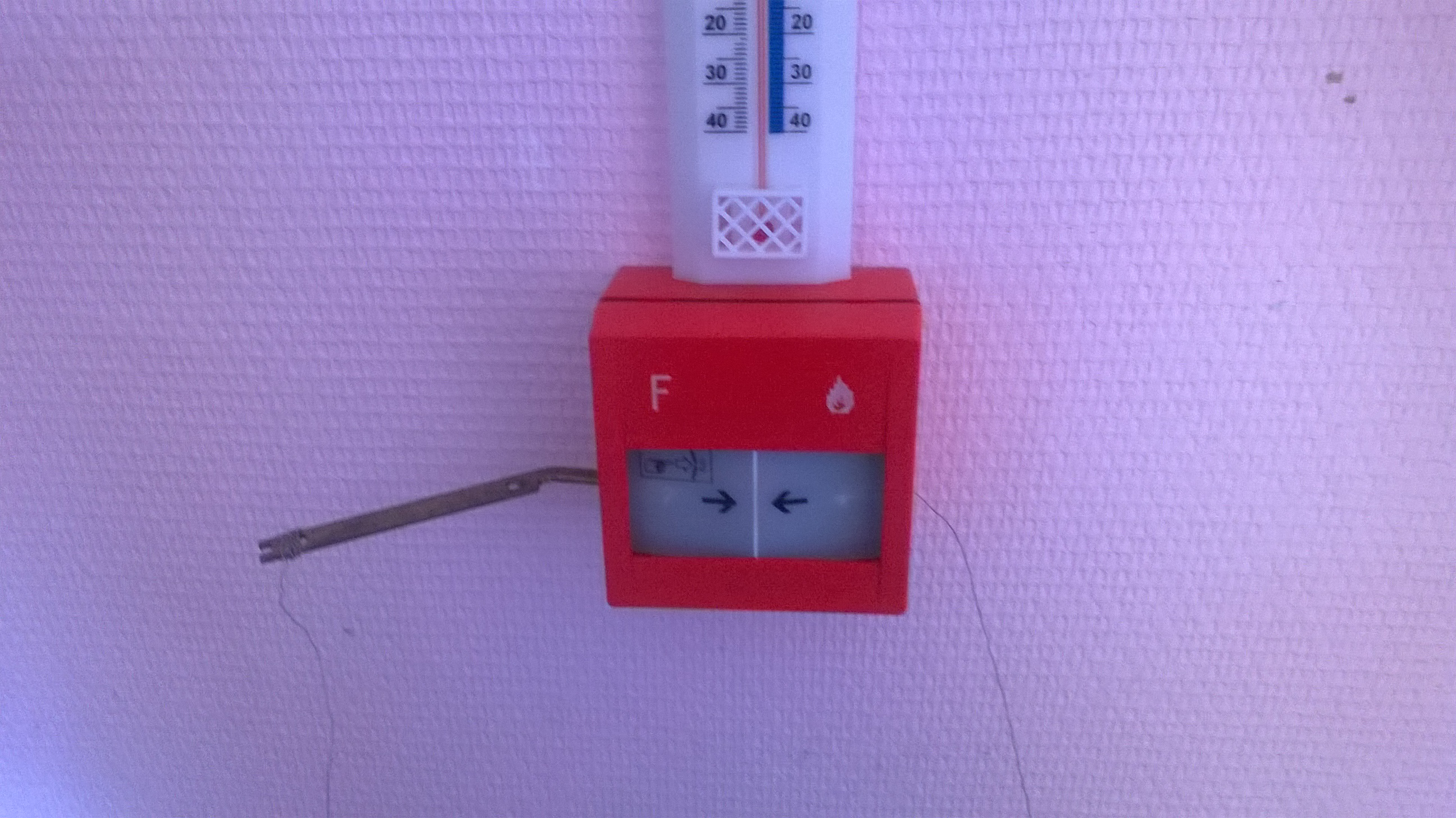 Older Legrand manual call point (MCP) in "neutral" position